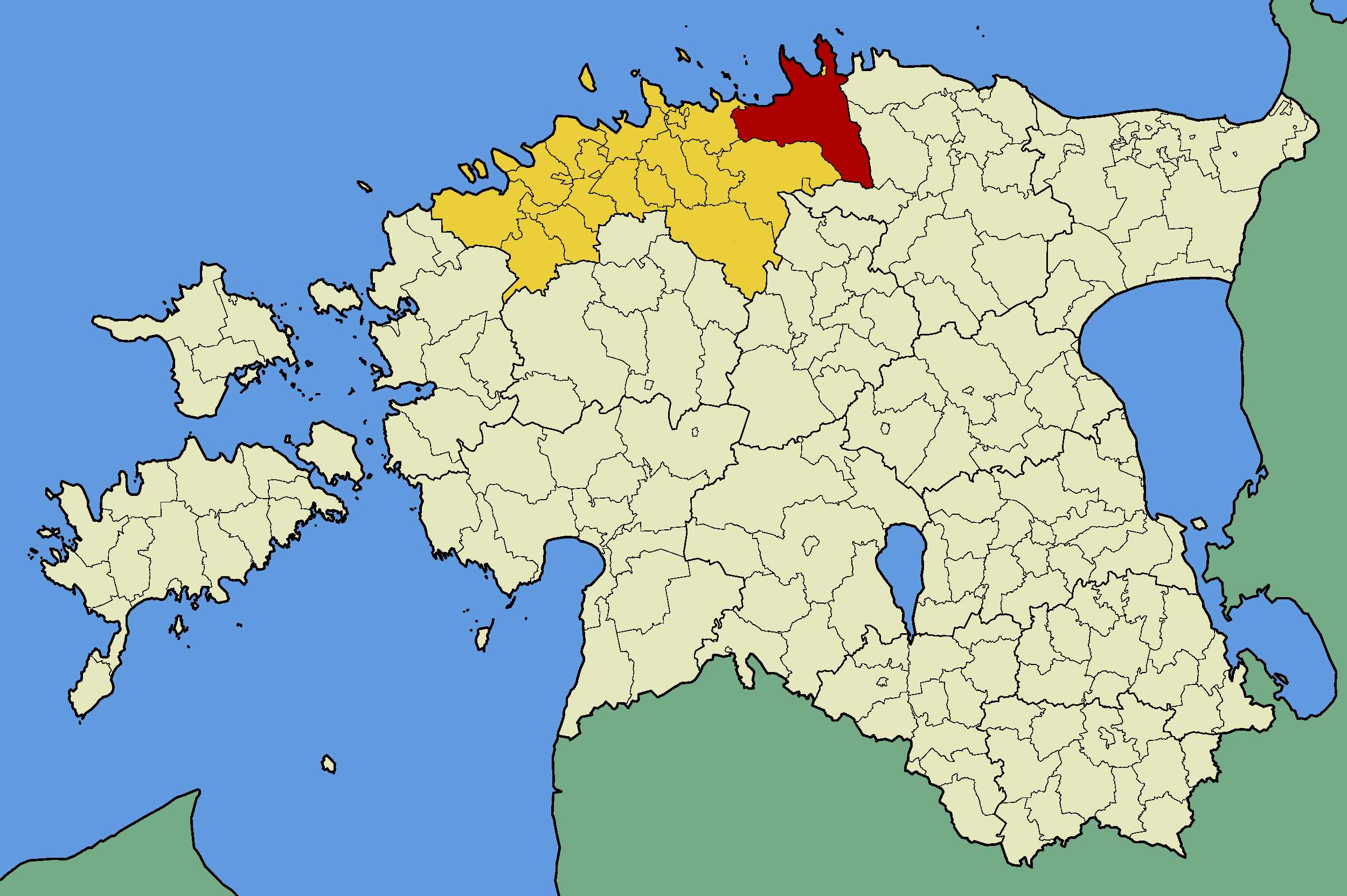 Map of Estonia with borders of municipalities (parishes). Harju county and Kuusalu municipality (parish) emphasized.